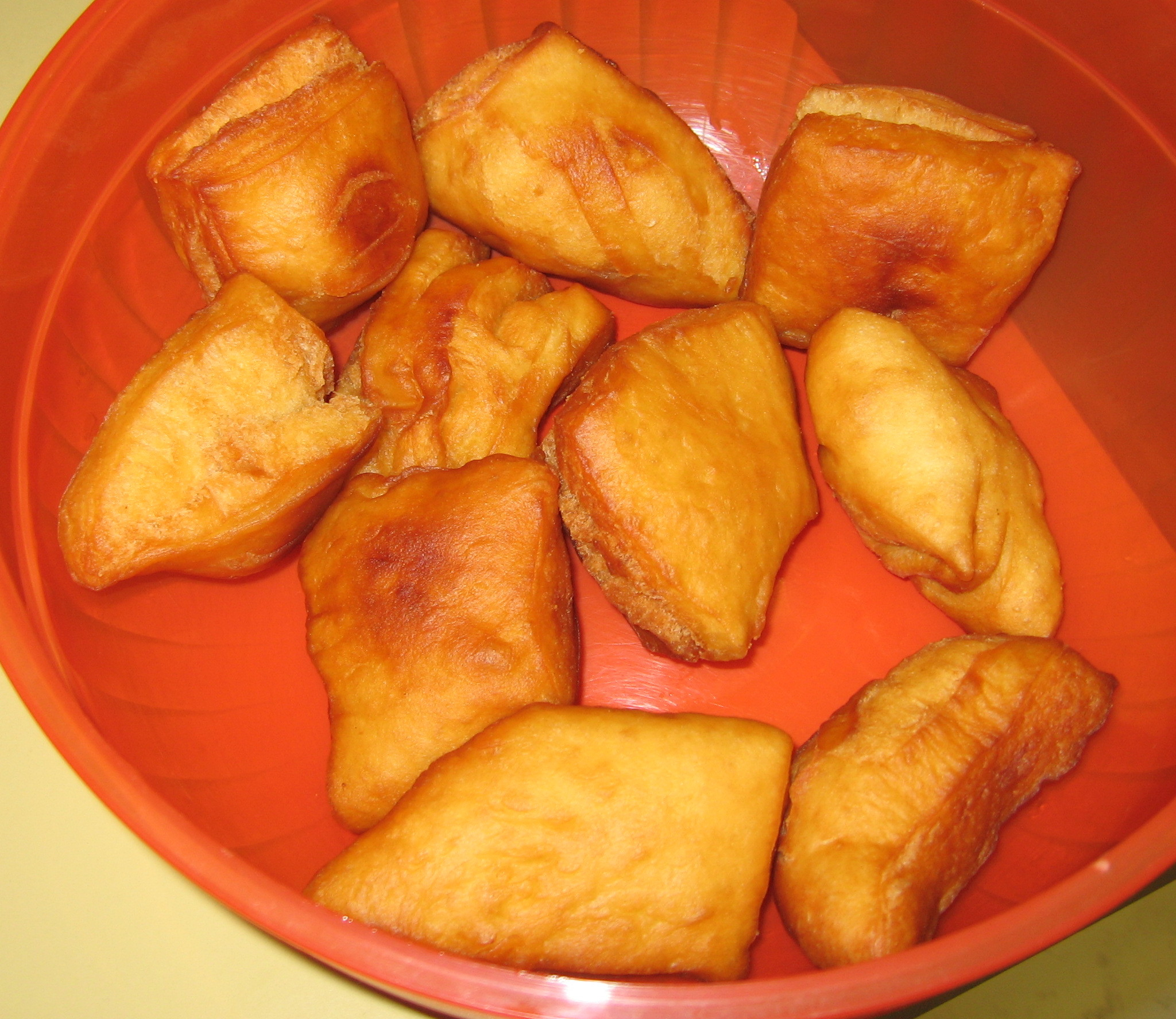 Boortsog, a type of Mongolian biscuit